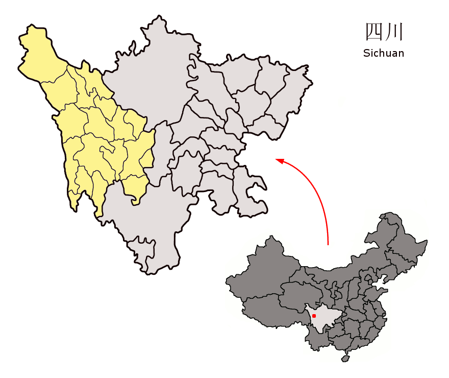 Location of Garzê Prefecture (yellow) within Sichuan province of China Map drawn in september 2007 using various sources, mainly : Sichuan province administrative regions GIS data: 1:1M, County level, 1990 Sichuan Counties map from